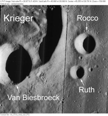 LO-V-193M The IAU-named features visible in this view are Rocco, Ruth and portions of Van Biesbroeck and Krieger.